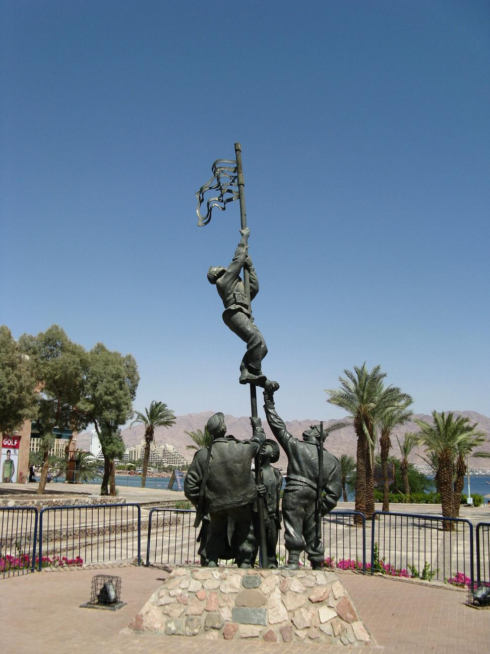 Statue of the "ink flag" דגל הדיו in Eilat